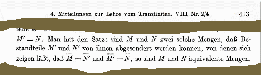 Cantor's first statement of the equivalence theorem (1887; excerpt of page 413)